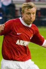 Vladimir Beschastnykh, Russian footballer.